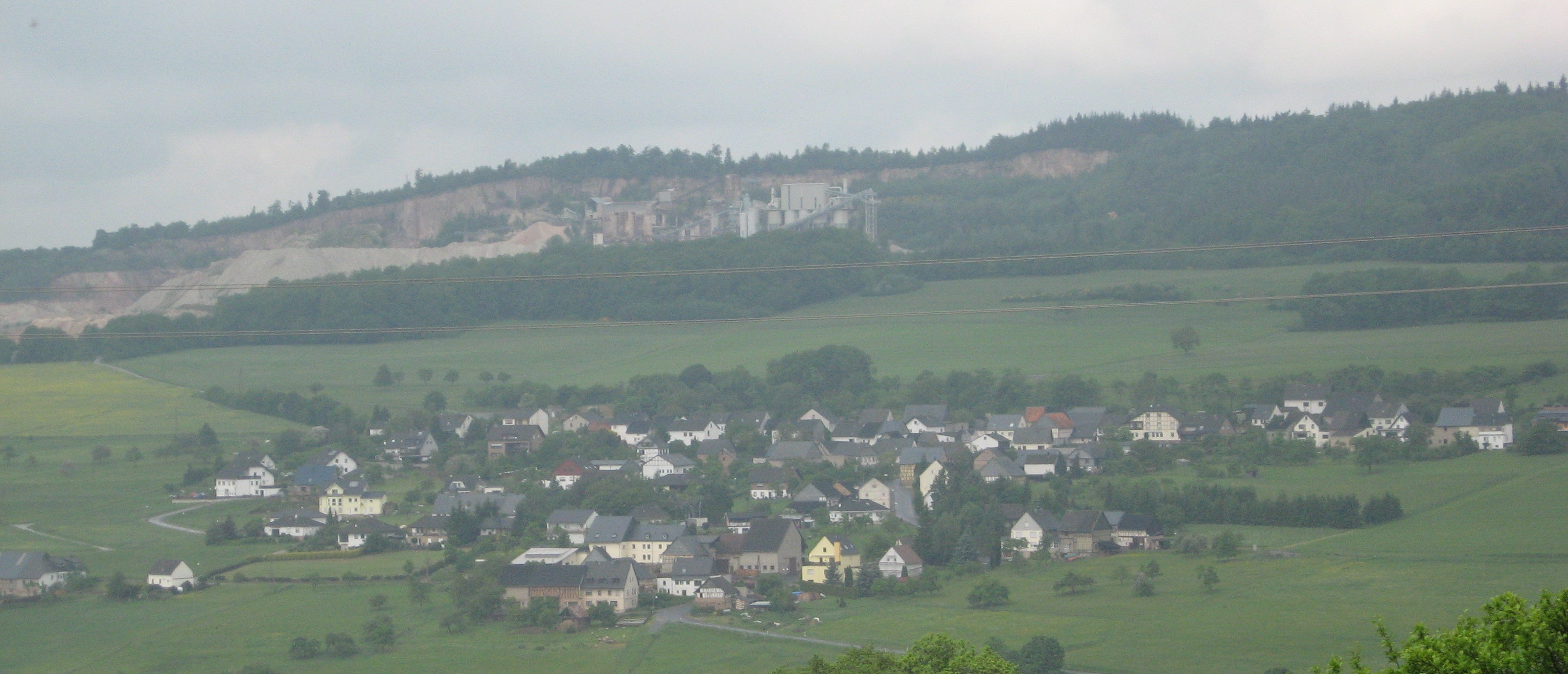 Village Henau in the Hunsrück landscape, Germany; behind the village a Quarry at the southwestern edge of Koppensteiner Höhe